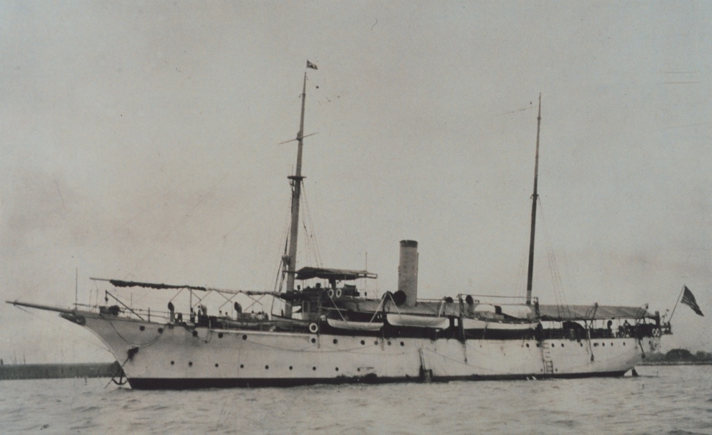 NOAA Photo Library: Image ID: ship0236, NOAA's Fleet Then and Now - Sailing for Science Collection; Category: Survey Ships/ with caption: "The Coast and Geodetic Survey Ship PATHFINDER in the Philippines in the early 1900's. This was the first PATHFINDER."